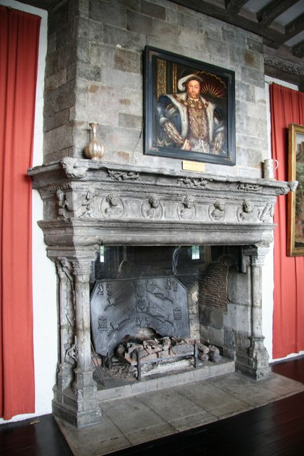 Henry VIII Banqueting Hall fireplace French, 16th century, carved Rouen stone fireplace with portrait of Henry VIII at Leeds Castle